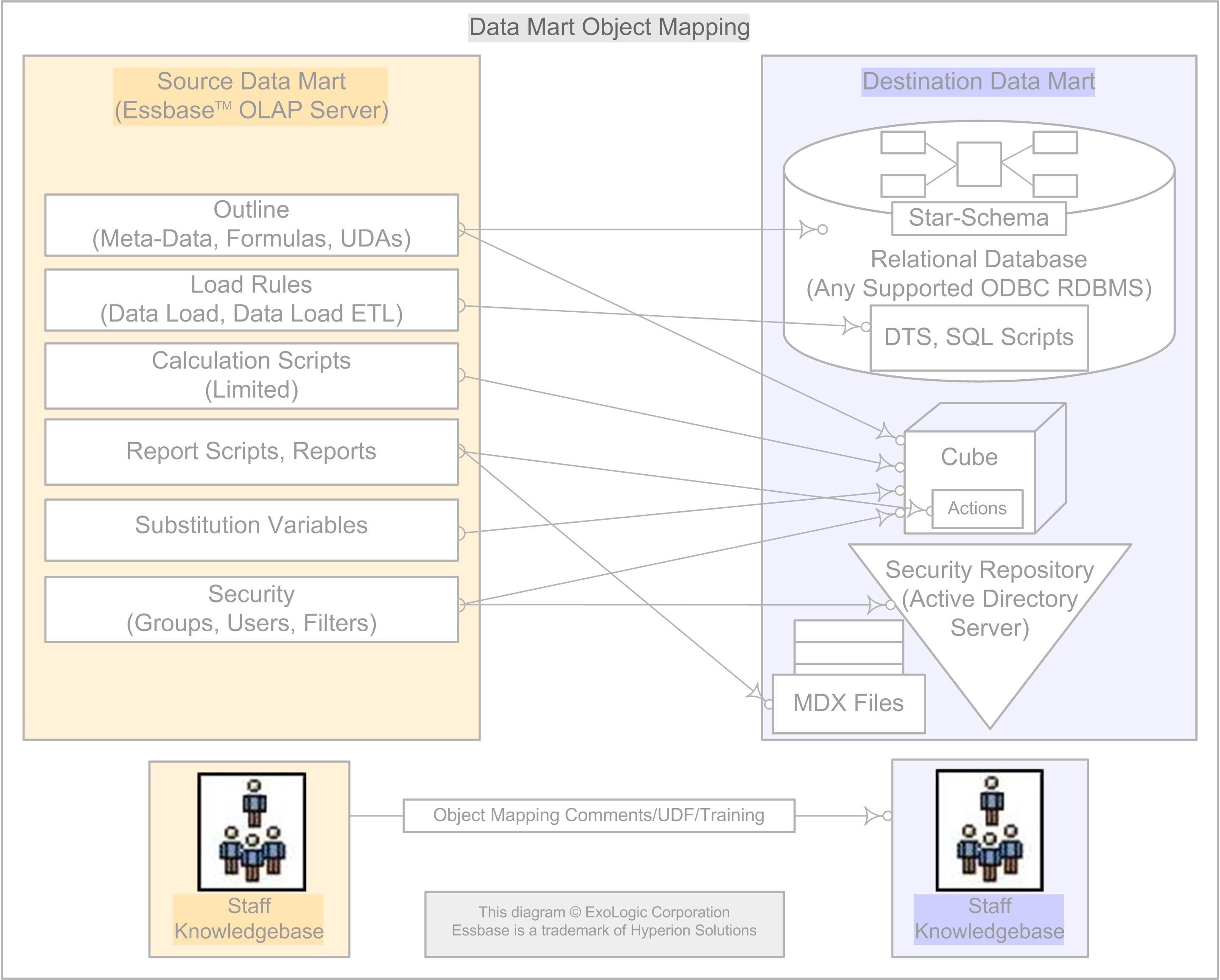 CubePort Architectural Diagram